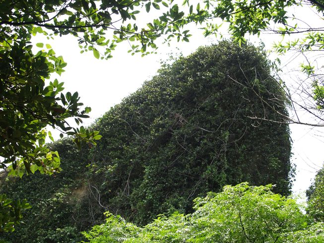 Yingge Stone, Taken by ResTpeTw on May 13th 2007.中文（台灣）: 鶯歌石。